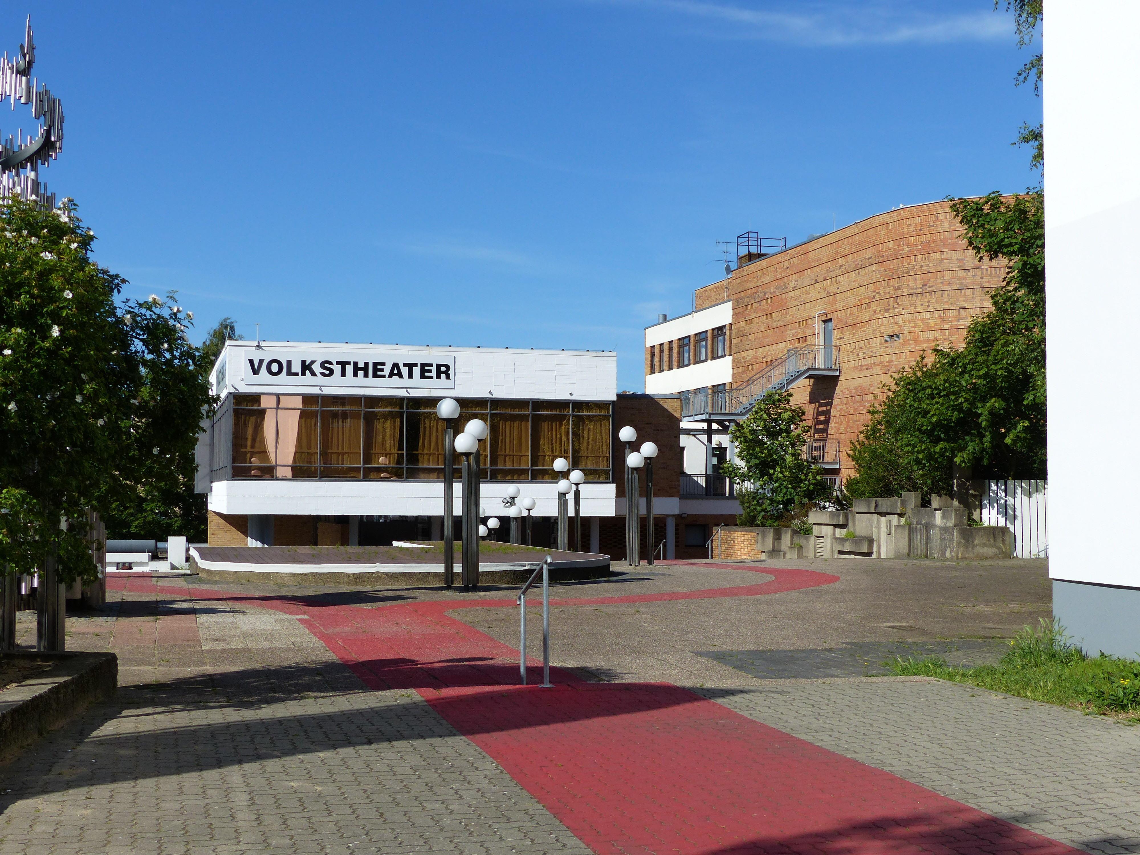 Eingangsbereich des Volkstheater Rostock, bei der Doberaner Straße